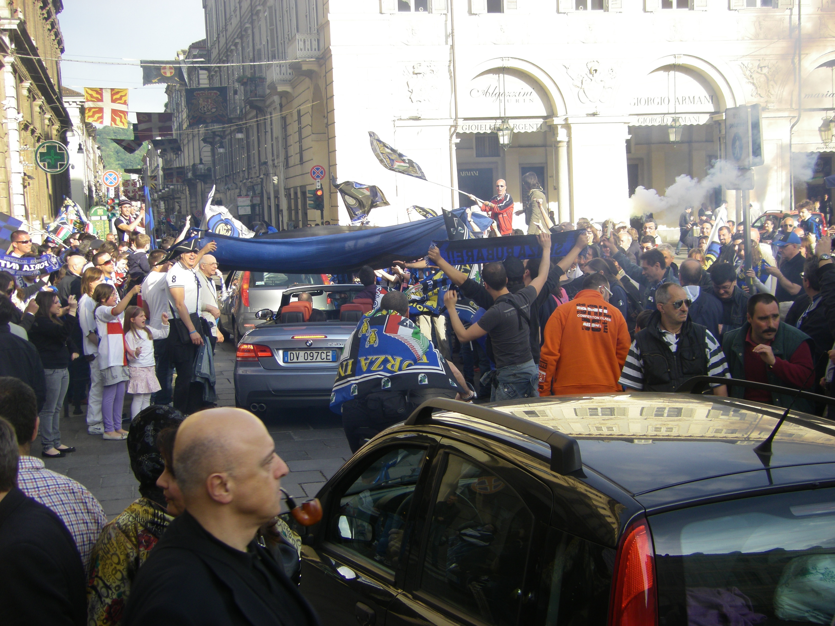 Supporters of Inter Milano celebrating their 18th Scudetto in Turin.